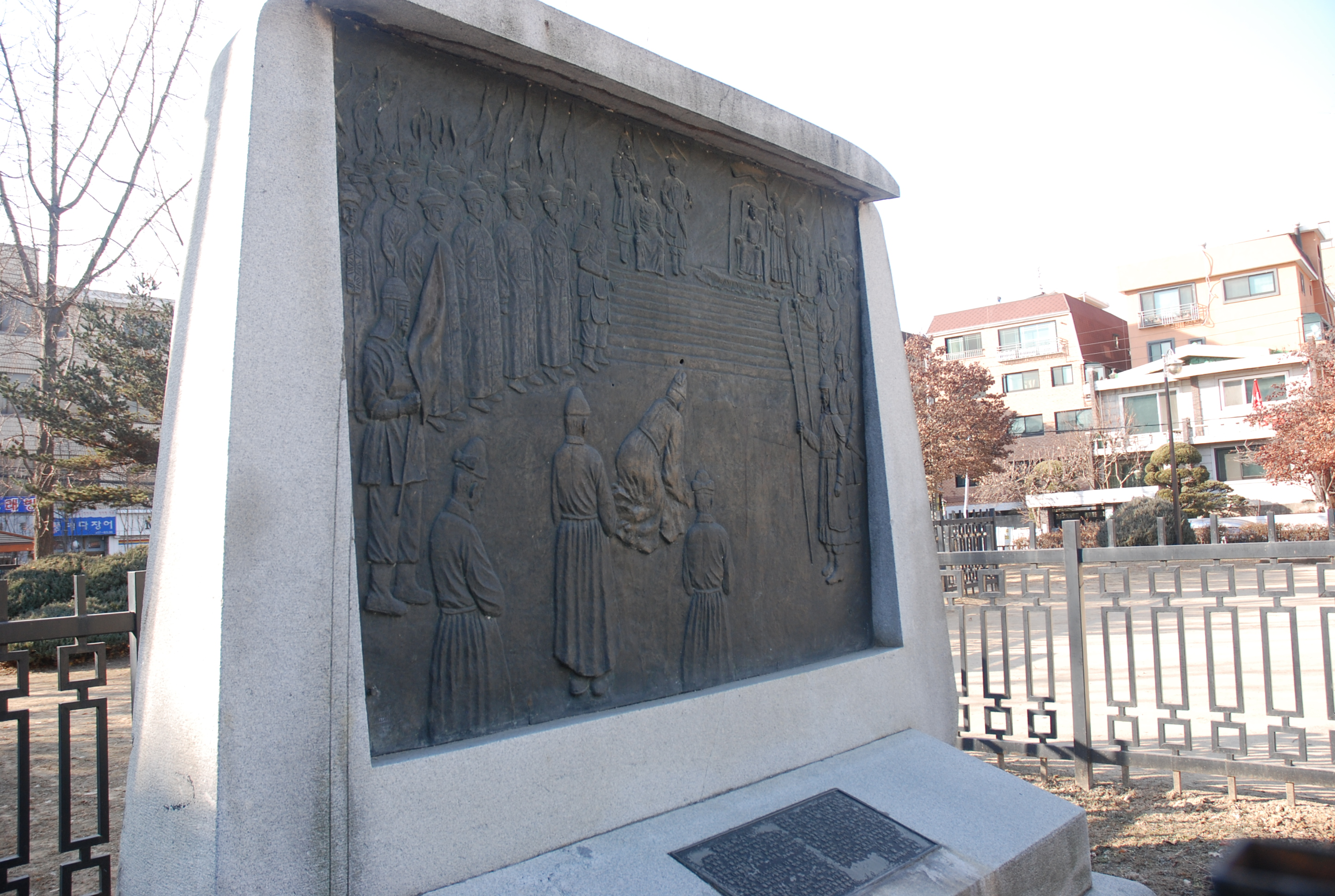 Surrender of King Injo to Hong Taiji at Samjeondo, Seoul